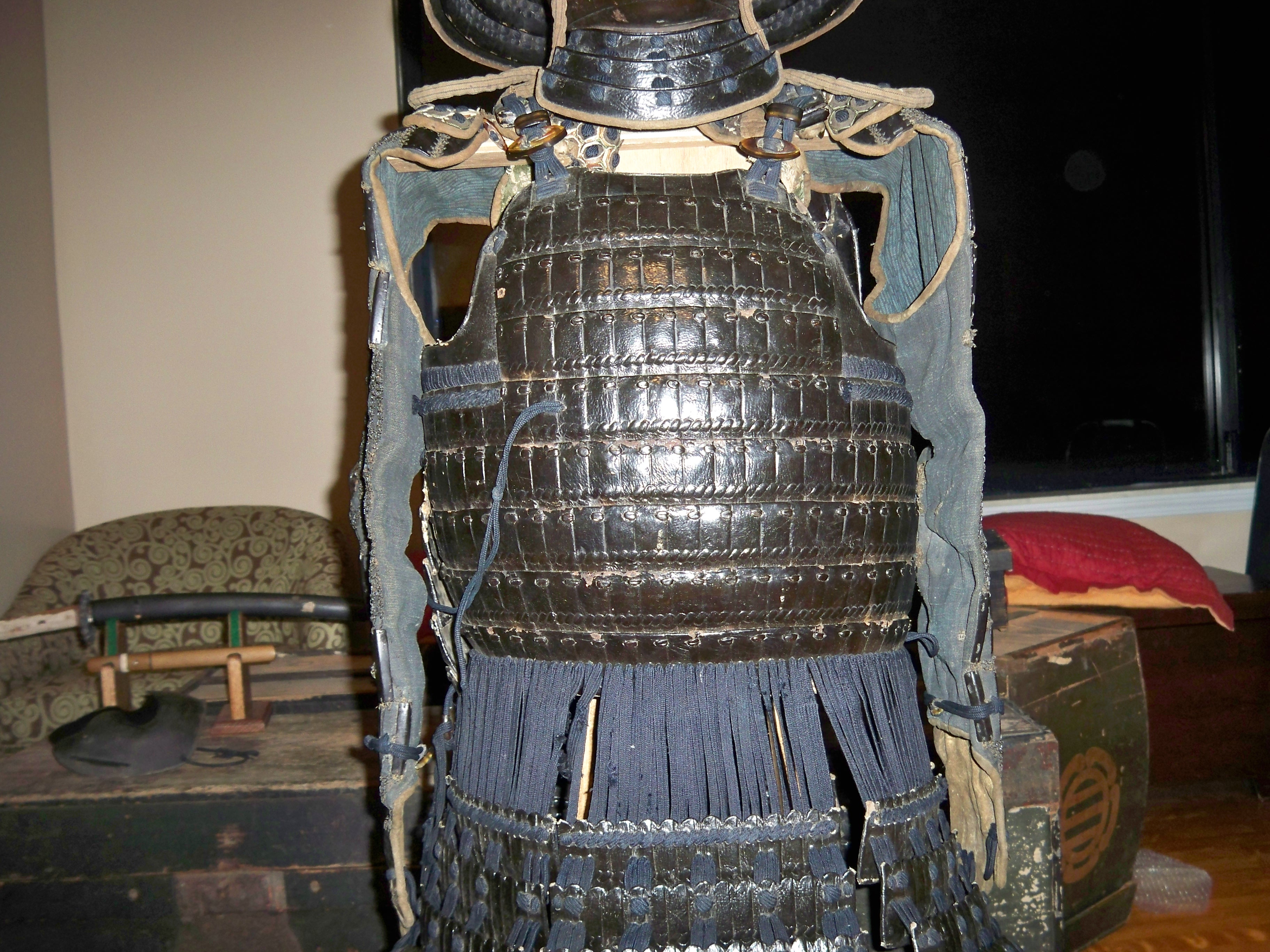 Antique Japanese (samurai) Edo period 1600s true large scale chest armor Iyozane dou.